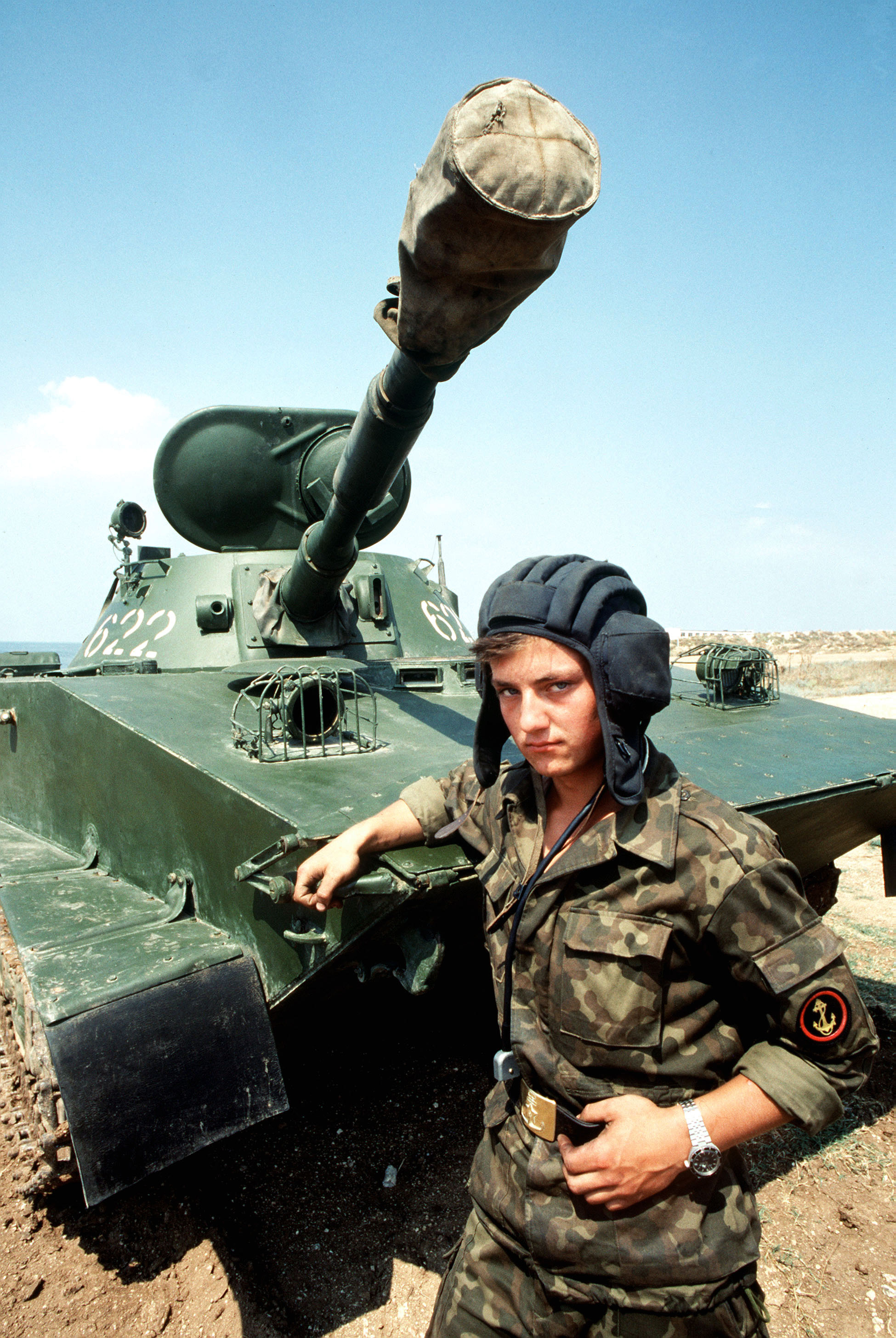 A Soviet naval infantryman stands with an arm on his PT-76 light amphibious tank, on display for visiting Americans. The Aegis guided missile cruiser USS THOMAS S. GATES (CG 51) and the guided missile frigate USS KAUFFMAN (FFG 59) are making the second goodwill visit to a Soviet port by American warships since World War II.